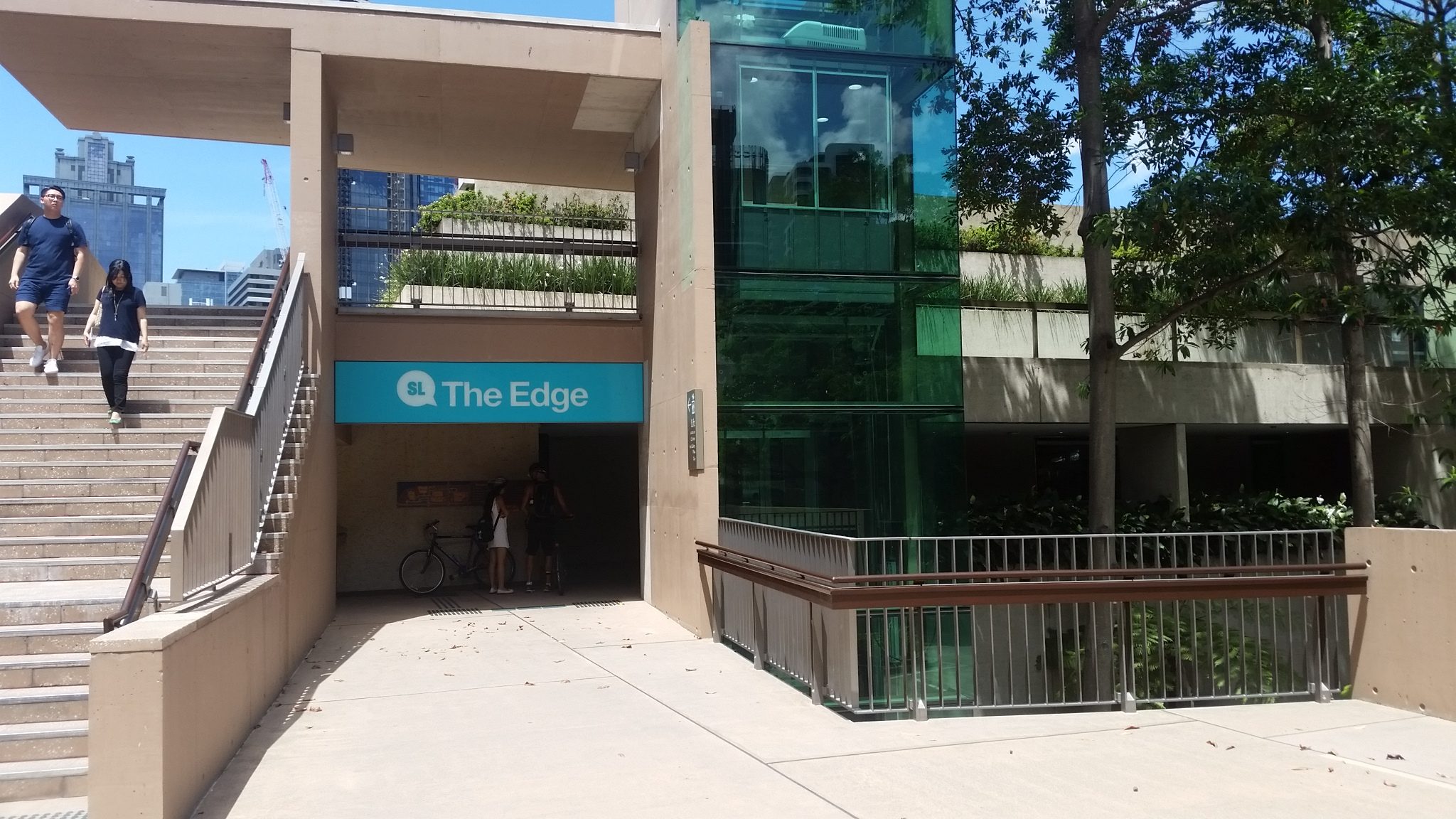 Brisbane Meetup Dec 2017 - location